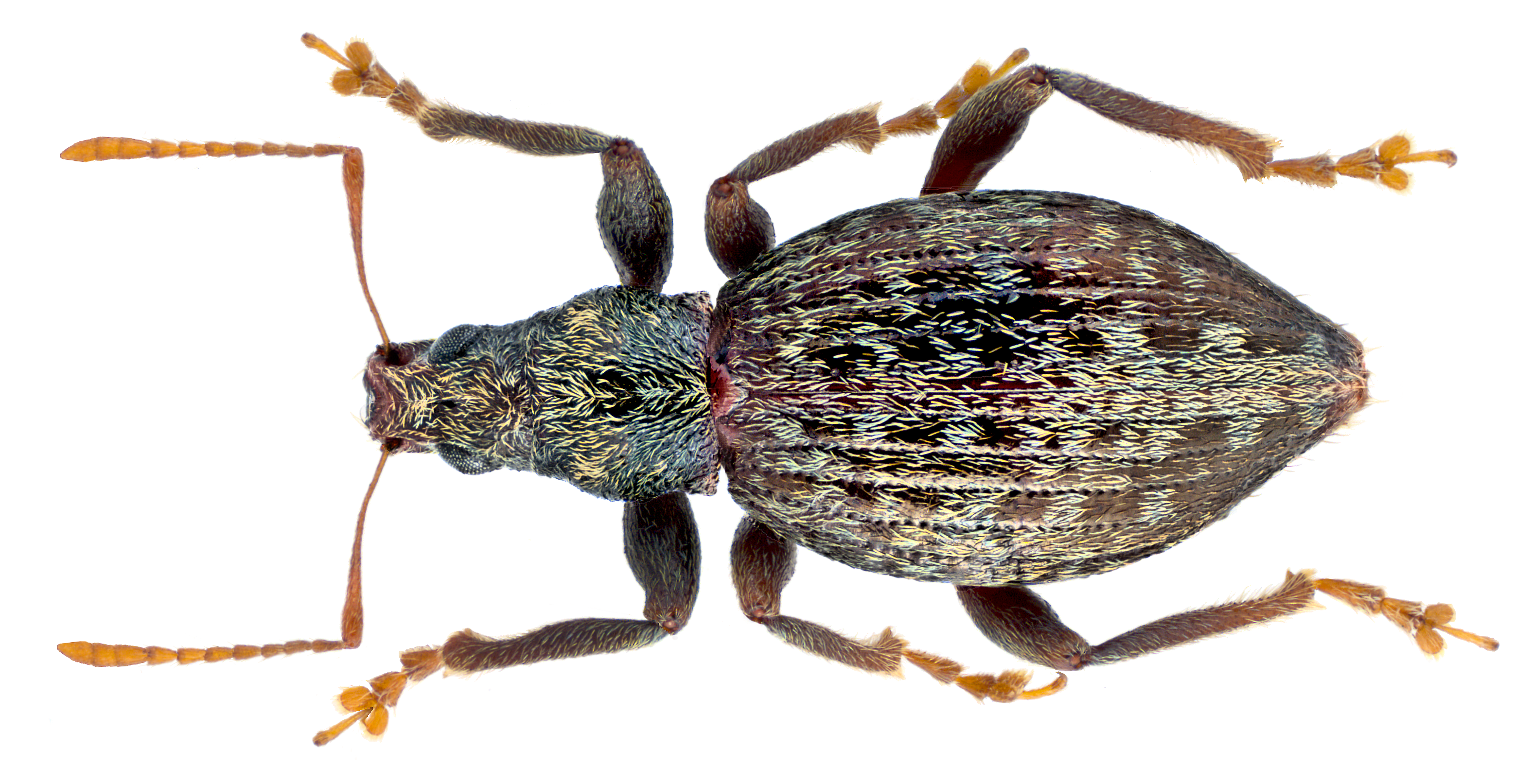 Family: Curculionidae Size: 7,7 mm Location: Spain, Canary Islands, Tenerife, Teno, Erjos, 1 km W Casa Forestal, 1030 m leg. J.Schoenfeld, 5.IV.2004; det. Behne, 2004 Photo: U.Schmidt, 2015